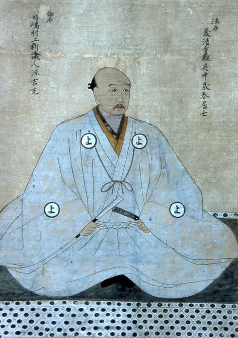 Murakami Yoshimitsu, Innoshima Archives, Innoshima Suigun Castle, Onomichi, Hiroshima, Japan